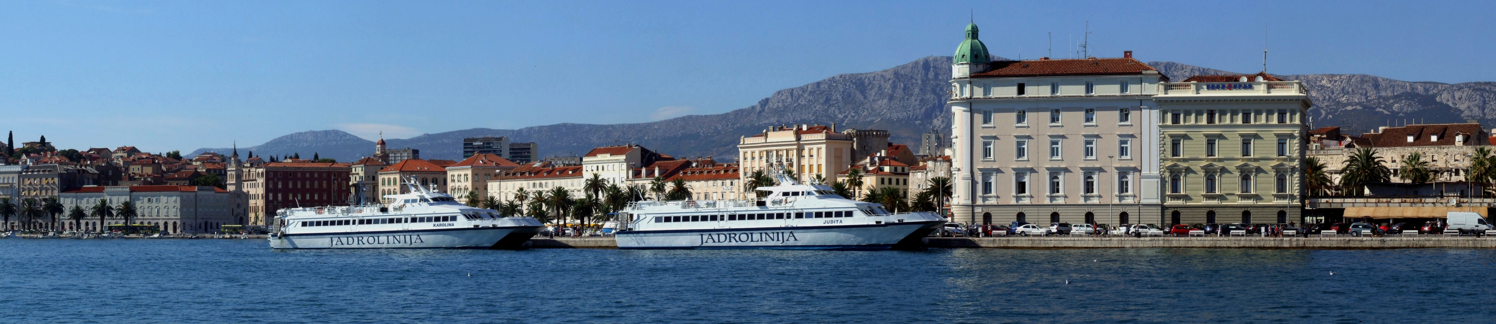 Split, Croatia - view from harbour